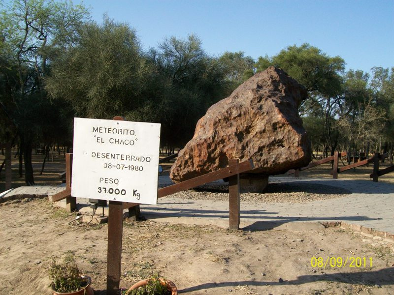 Campo del Cielo meteorite, El Chaco fragment.